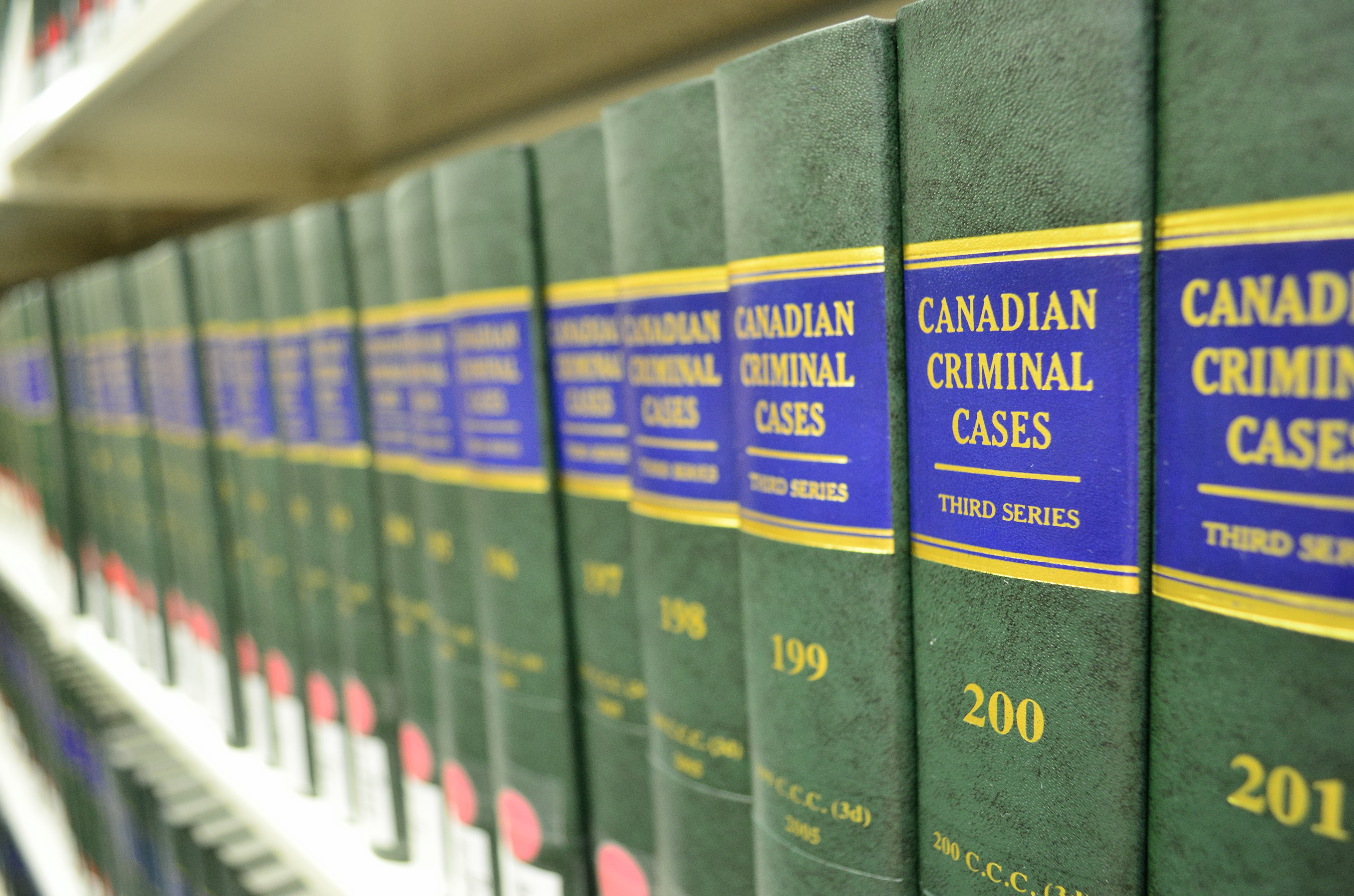 Canadian criminal cases, 3rd Ed